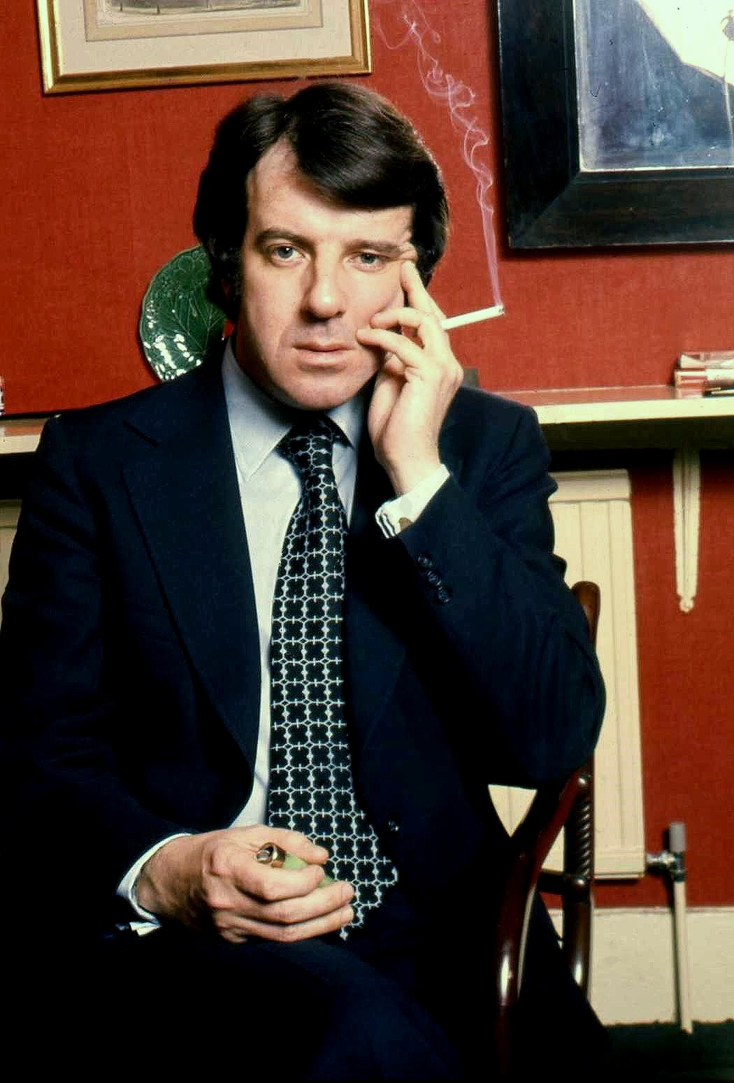 portrait of Russel Harty